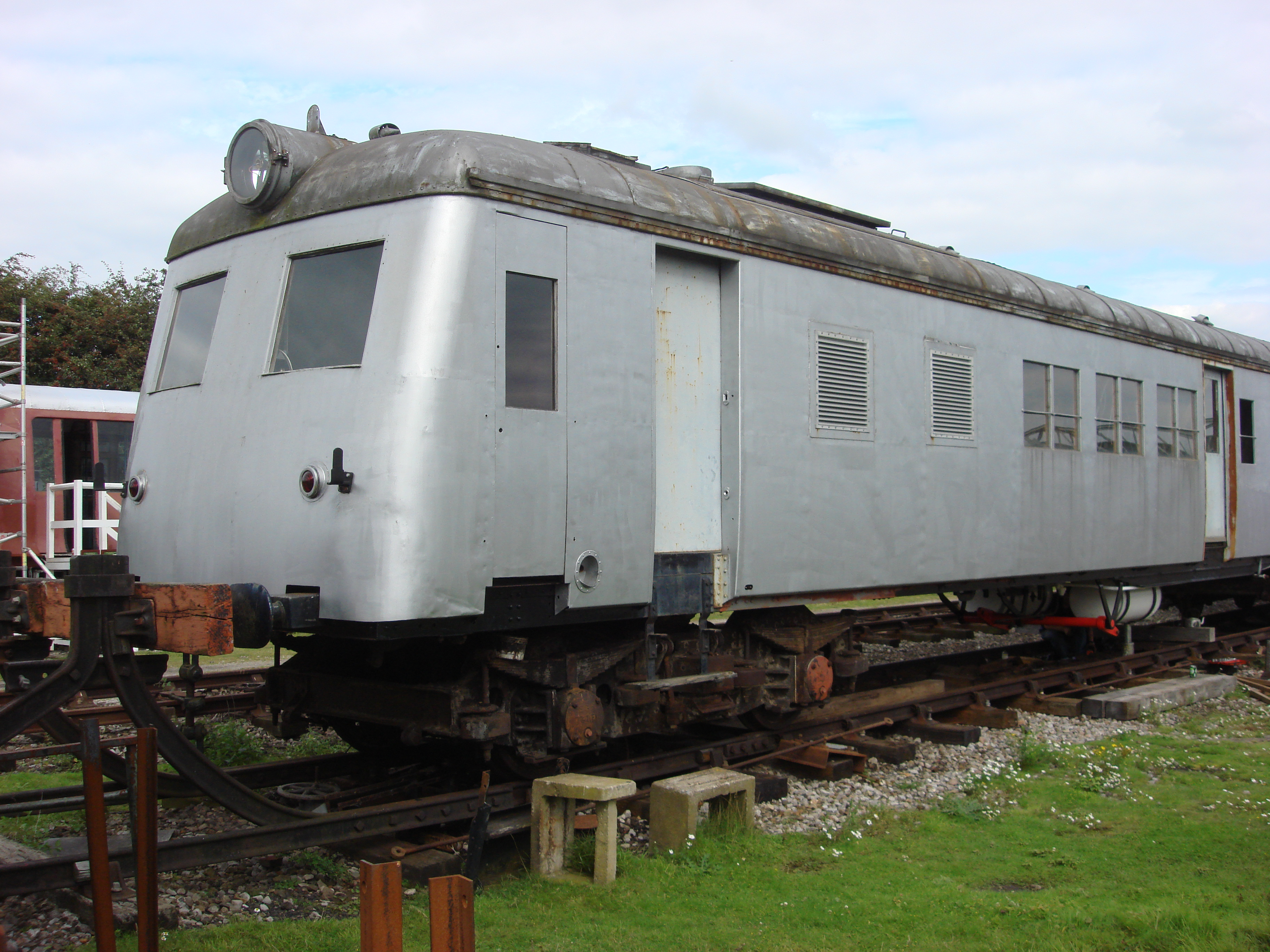 Sentinel-Cammell Egyptian National Railways 3 car articulated Steam Railcar No. 5208 at the Buckinghamshire Railway Centre